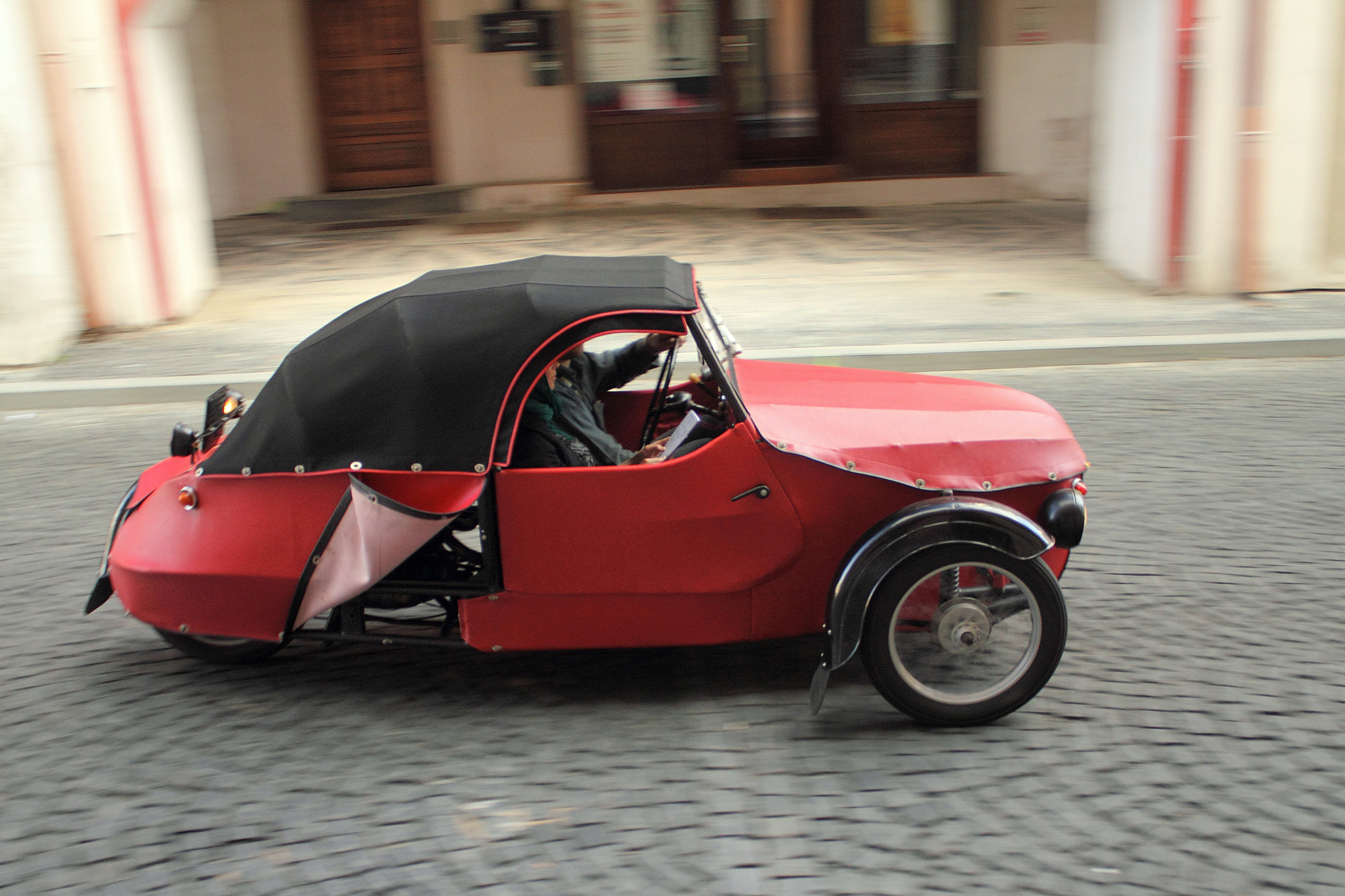 Velorex-Oskar 16/250, 2013 Oldtimer Bohemia Rally, Mladá Boleslav